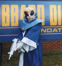 A critic of Scientology dressed as Xenu, the Galactic Emperor. Part of the Xenu leaflet by Roland Rashleigh-Berry, which he placed in the public domain.